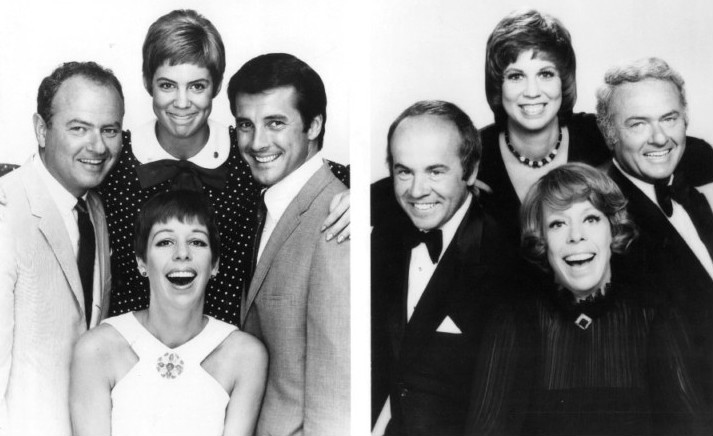 Publicity photo of the cast of The Carol Burnett Show. 1967: Carol Burnett, Harvey Korman, Vicki Lawrence, Lyle Wagoner. 1977: Tim Conway, Vicki Lawrence, Harvey Korman, and Carol Burnett.